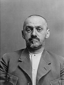 Mugshot of Mohammed Beck-Hadjetlaché 1919.